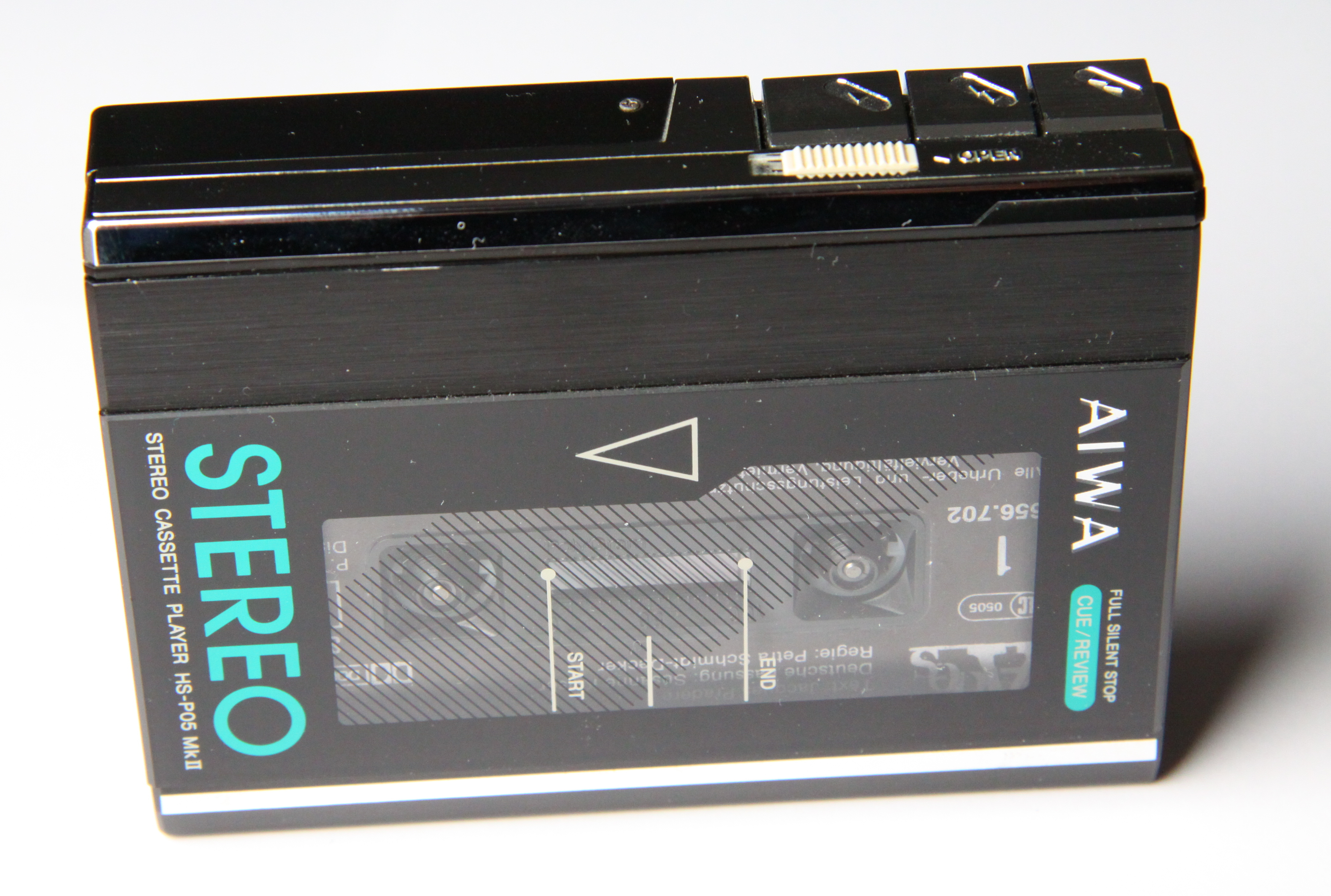 AIWA HS-P05 Mk II audio cassette player (with cassette inside)